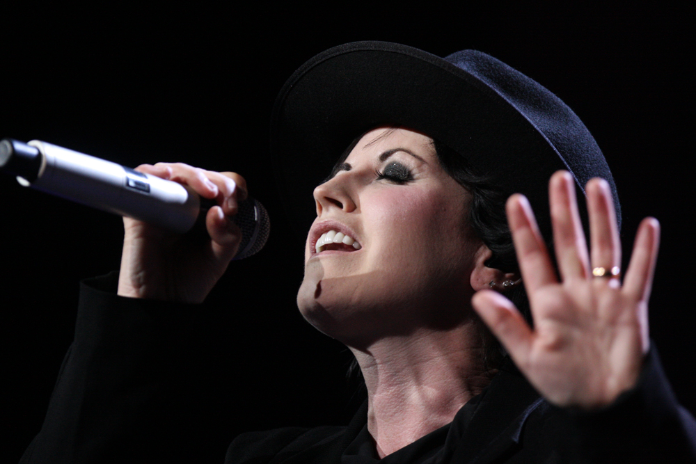 The Cranberries Enmore Theatre, Sydney Tonight The Cranberries perform tonight at Sydney's famous Enmore Theatre. The iconic group is fronted by Dolores O’Riordan and lit up the charts around the world for more than a decade with classics such as Linger, Dreams and Zombie. They have sold more than 30 million albums and have had two number one albums in Australia, No Need To Argue (1994) and To The Faithful Departed (1996). Other live favourites include Free To Decide, When You’re Gone, Salvation, Ode To My Family and Ridiculous Thoughts. They’ve performed to millions of fans across the globe including several appearances for the Pope. They’ve graced the cover of Rolling Stone and performed on Letterman and Leno. After taking a few years out to raise their families, THE CRANBERRIES release a new album, Roses, on February 27, the quartet’s first studio album since Wake Up and Smell the Coffee in 2001. THE CRANBERRIES are well known for their exceptional live performances. Dolores says “There’s something about playing with THE CRANBERRIES, it’s like putting on the pair of perfect shoes. It’s a chemistry. It just fits.” Popular Melbourne-based NZ reggae/roots/funk five-piece BONJAH will be the special guests. With over 500 Australian gigs under their belt and their second album, Go Go Chaos, hitting the charts last year, BONJAH will kick off the evening in fine style. Don’t miss your only chance to see The Cranberies perform their only Australian solo show. Websites The Cranberries Enmore Theatre McManus Entertainment Flourish PR Eva Rinaldi Photography Flickr Eva Rinaldi Photography Music News Australia